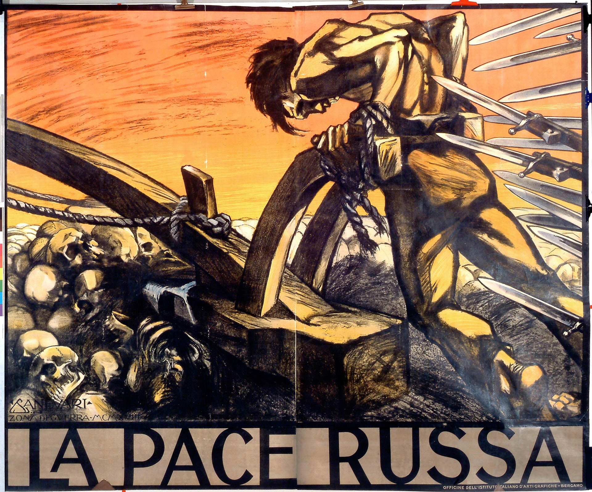 Full title: Russian peace Formats: Poster, Illustration Creator: Canevari*Sergio Usage terms Public Domain Held by Istituto Centrale per il Catalogo Unico Explore this item further Description The fear of a resolution to the war in which Italy gained no advantage is often present in the country’s propaganda. In this poster, the Bolshevik Russia that agreed with the Treaty of Brest-Litovsk (March 3, 1918) is represented as a serf, bayonet in the back, forced to carry out death’s terrible work. This poster complements another poster, also by Sergio Canevari, entitled German Peace.